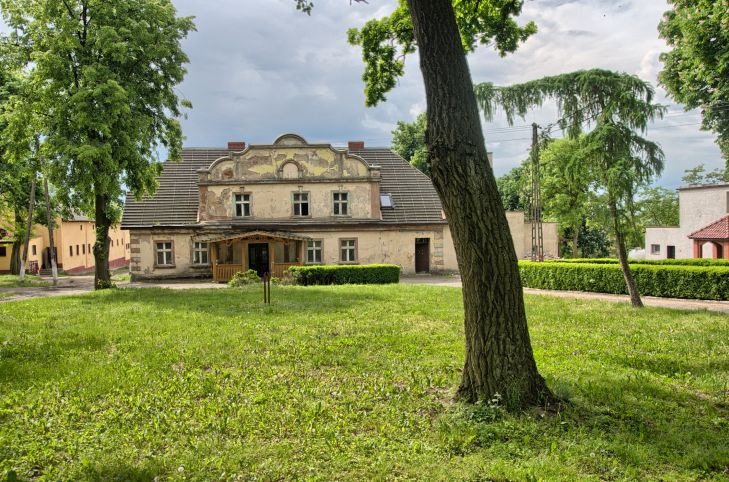 Lubiń dwór